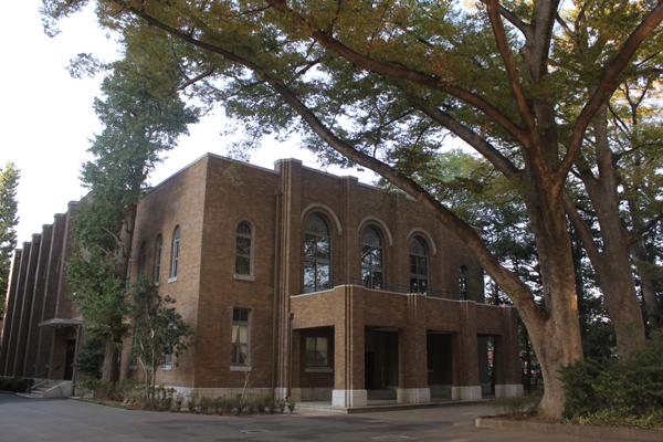 Daikōdō, the Auditorium of Musashi University, located in Nerima, Tokyo, Japan.